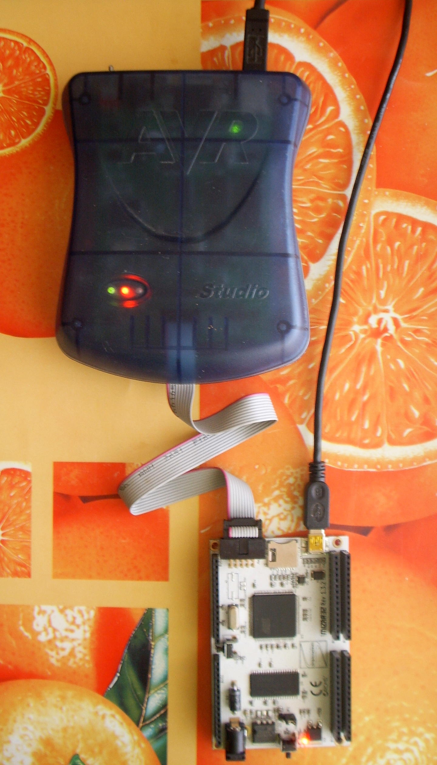 An AVR JTAG ICE MKII programmer connected to a Mizar32 computer